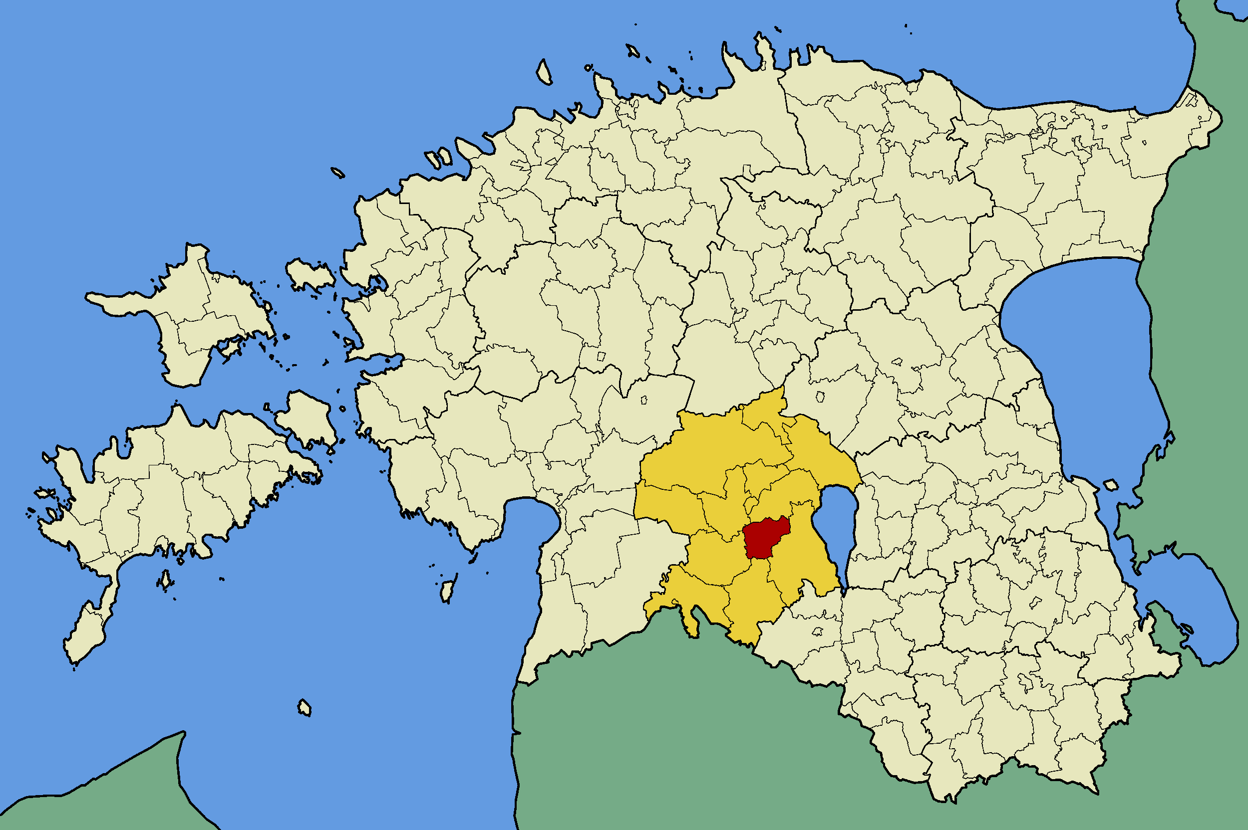 Map of Estonia with borders of municipalities (parishes). Viljandi county and Paistu municipality emphasized.